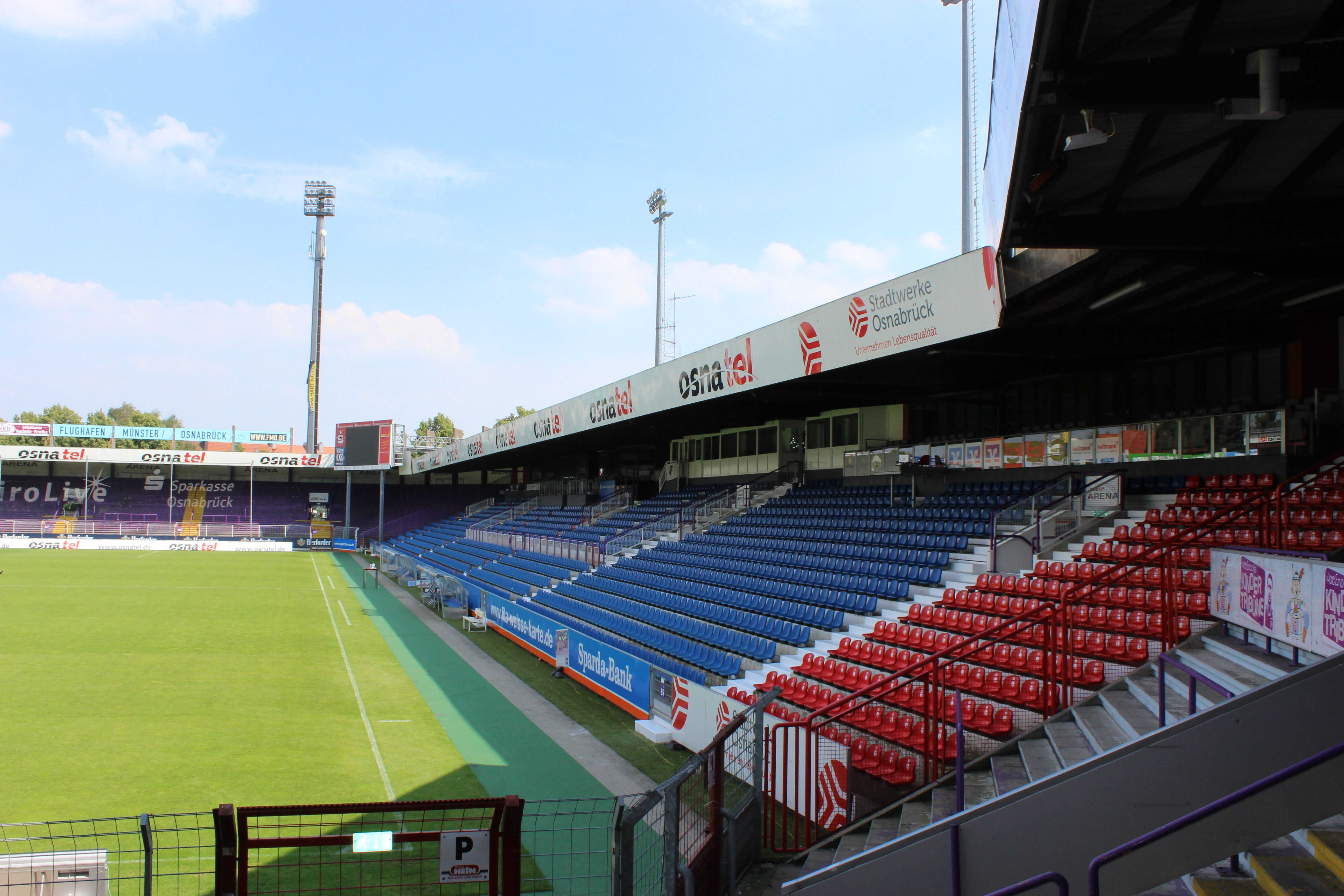 Osnabrück: osnatel Arena